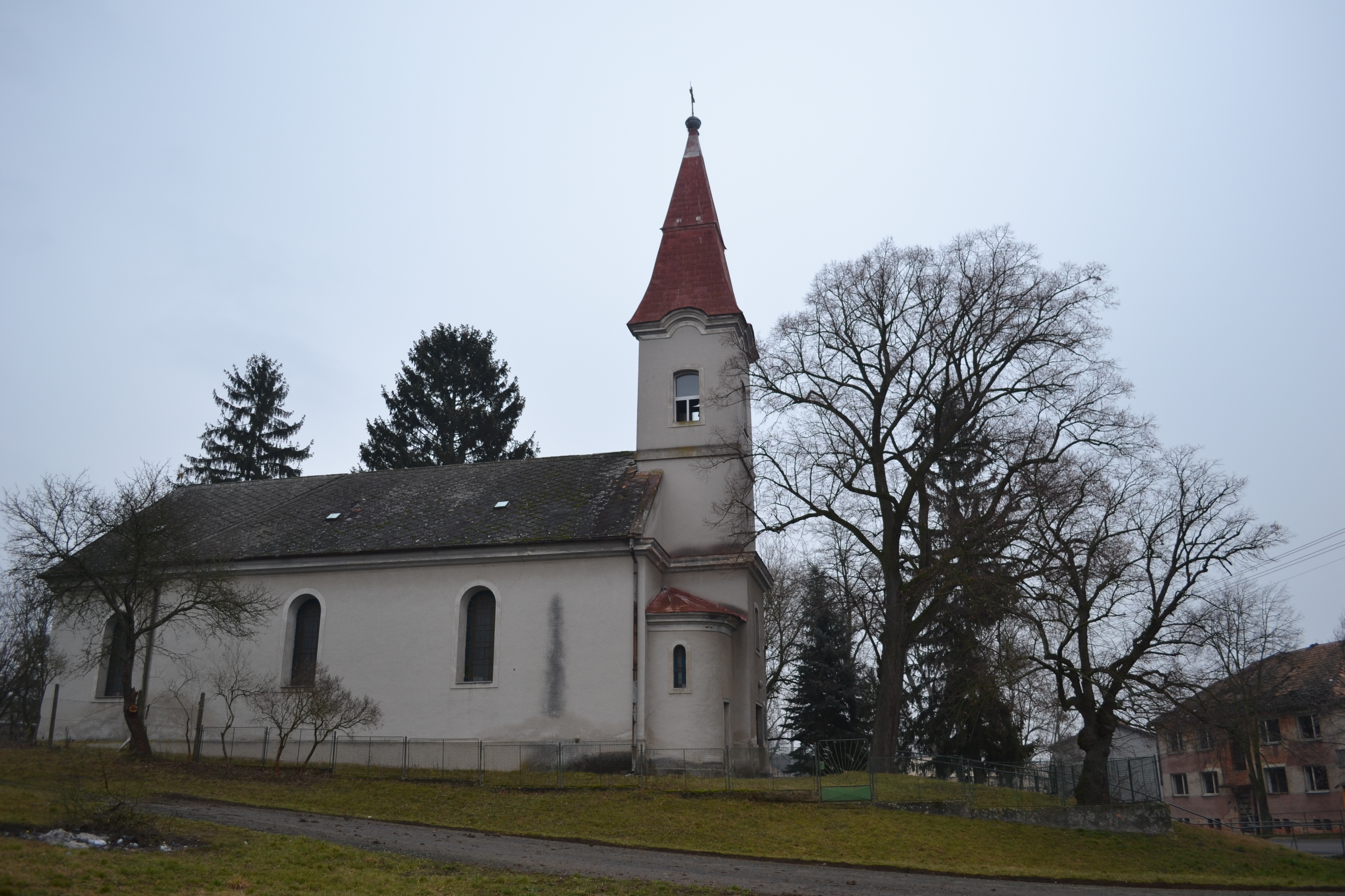 Lutheran church was built in 1845 (Zombor, Veľký Krtíš District)